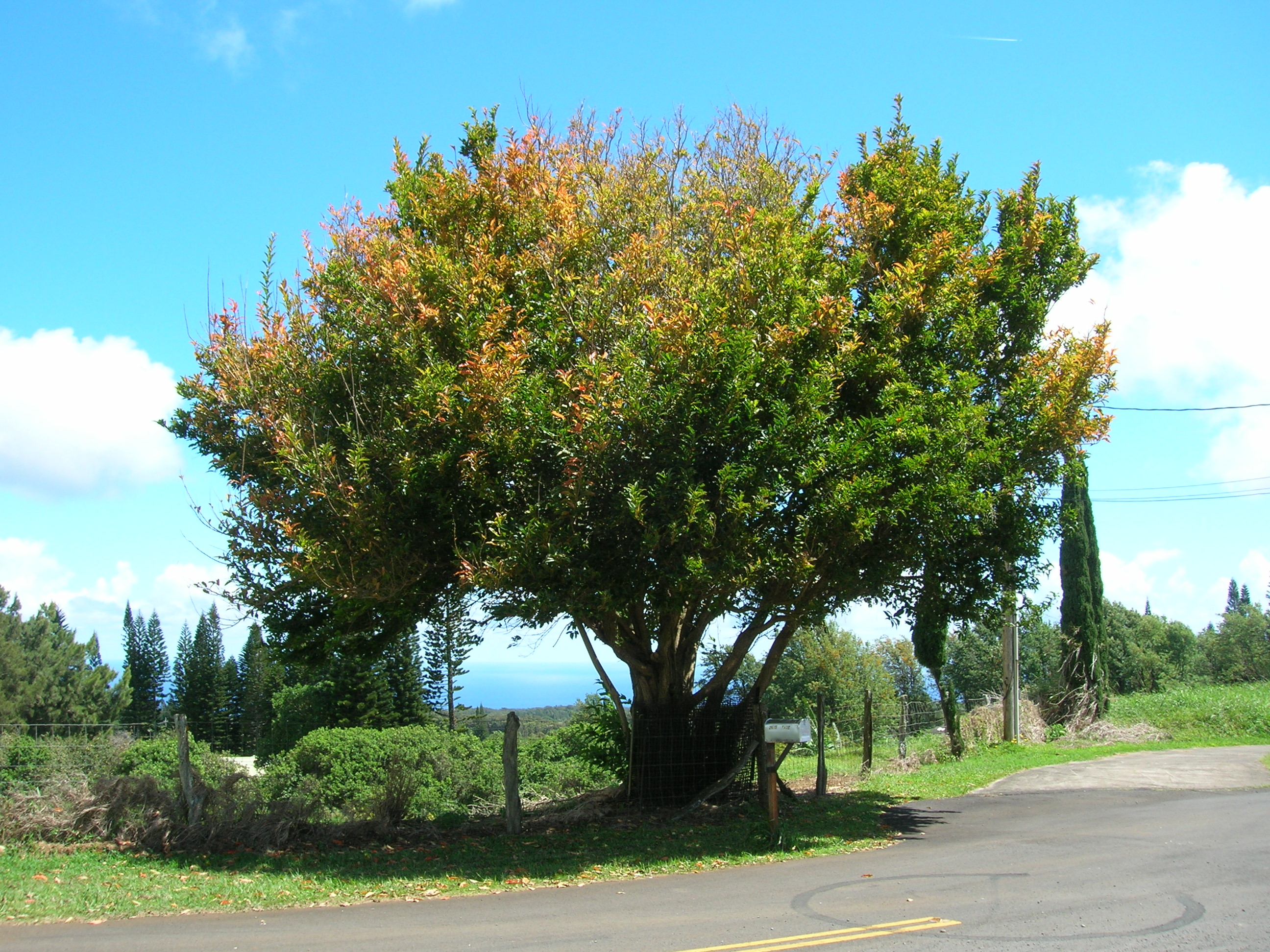 Citharexylum spinosum (habit). Location: Maui, Pololei Haiku